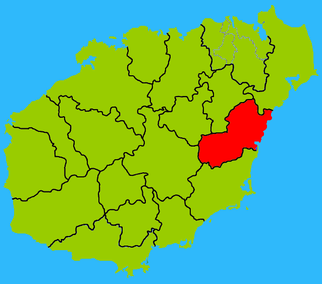 Hainan subdivisions - Qionghai